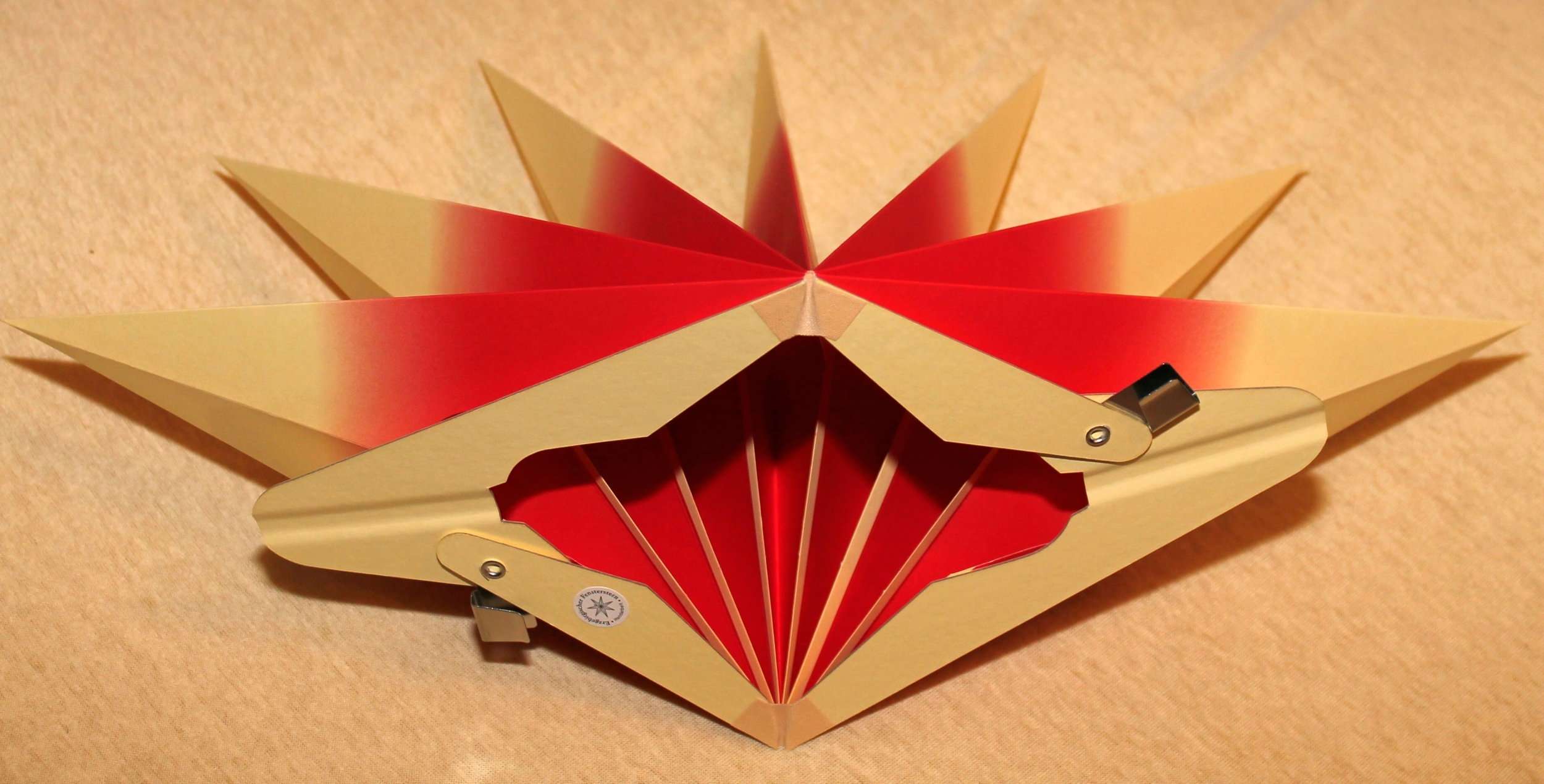 Luminous christmas star from Annaberg, Saxony, Germany.